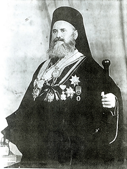 Visarion Xhuvani, Albanian Orthodox Primate